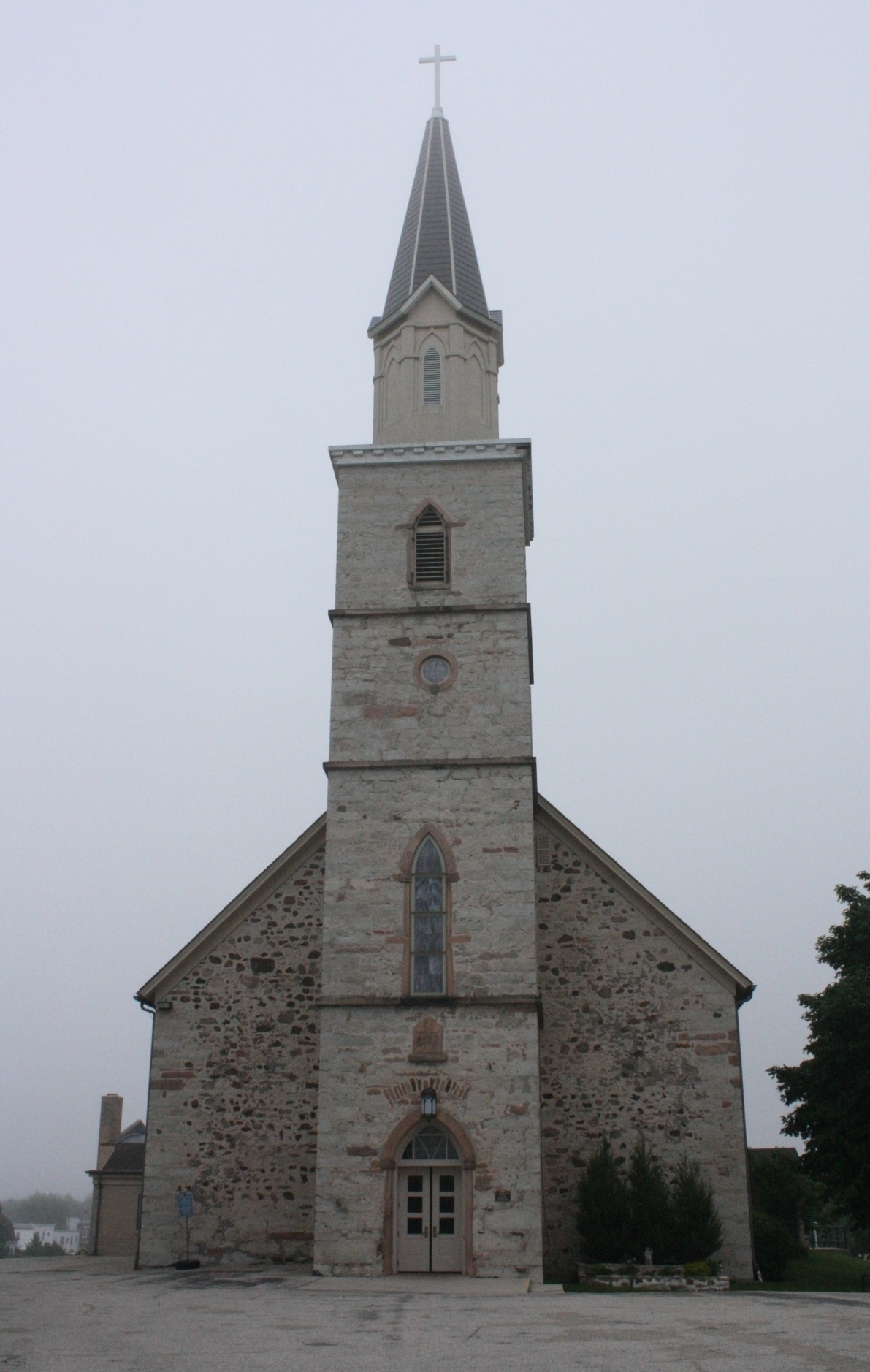 The St. Gregory Church, listed on the National Register of Historic Places in St. Nazianz, Wisconsin.